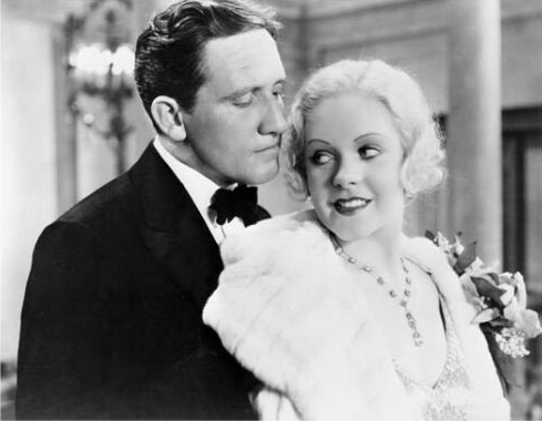 Spencer Tracy & Alice Faye in the American Pre-Code drama film Now I'll Tell (1934). See also film still. No copyright notice.